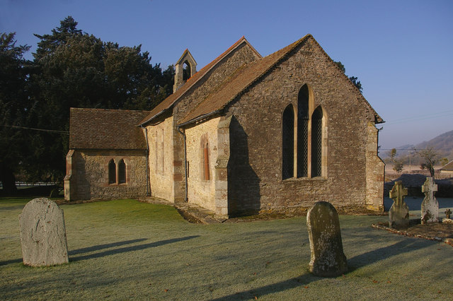 St Giles Church, Pipe Aston A Norman church, partly rebuilt in the 13th century with a 14th century roof.